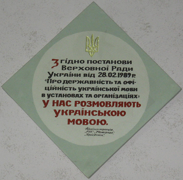 An announcement in a Lviv hospital: "We speak Ukrainian language here"